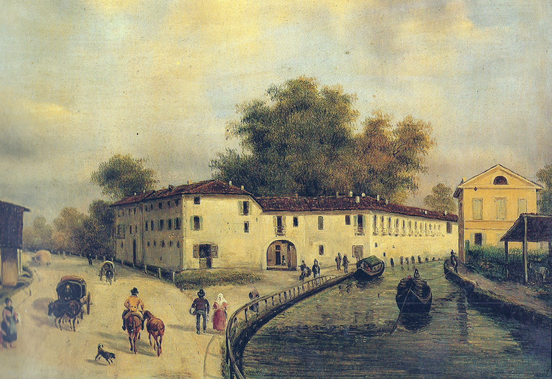 Milano, la Cassina de' pomm senza ponti prima del 1837 (Giuseppe Porta, 1807-1847?)